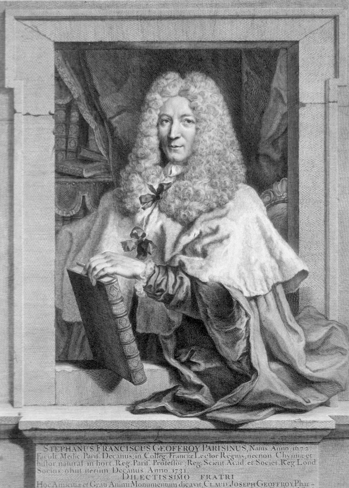 Portrait of Étienne François Geoffroy (1672-1731)